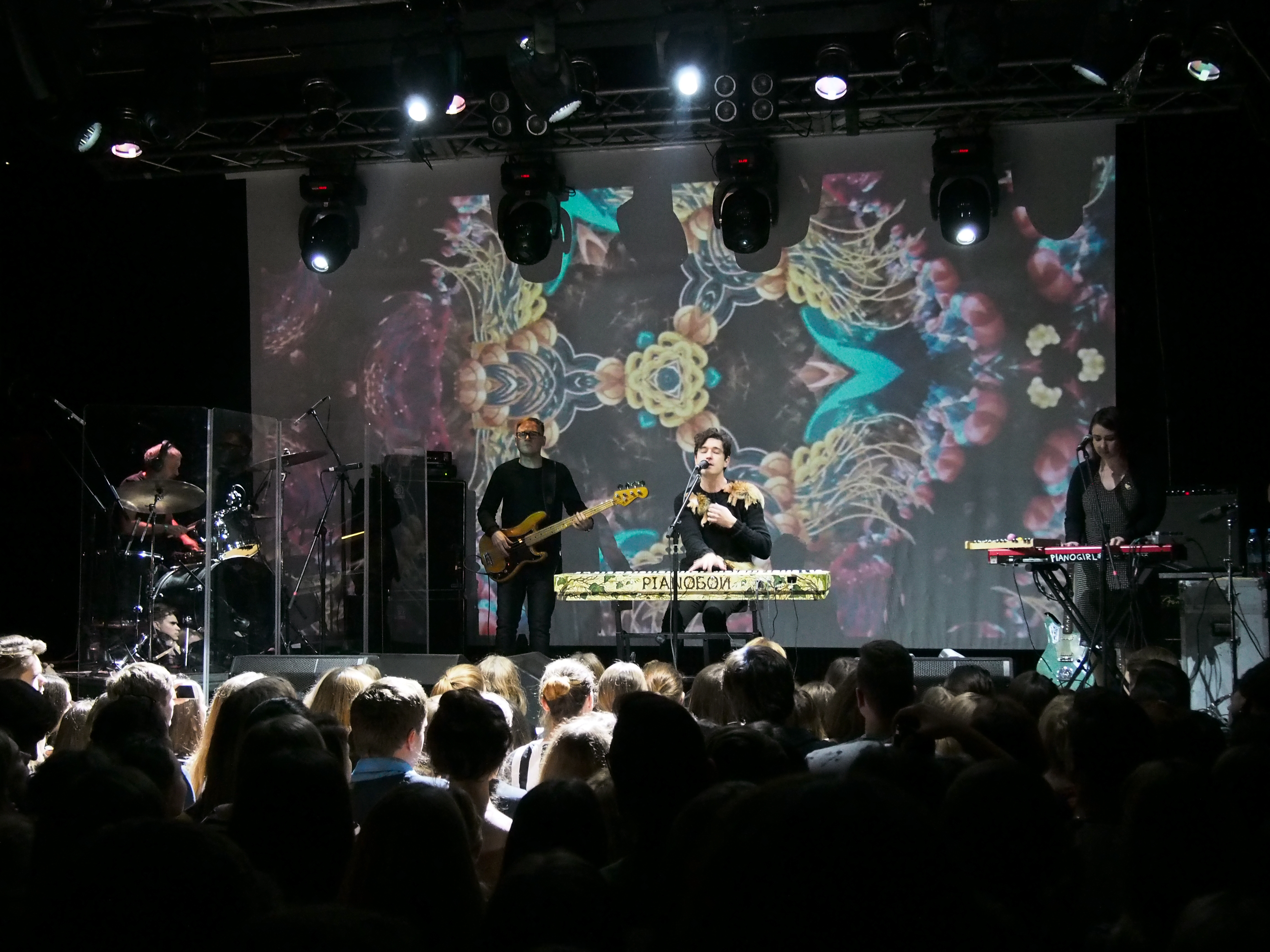 Pianoboy concert at Atlas, Kyiv.